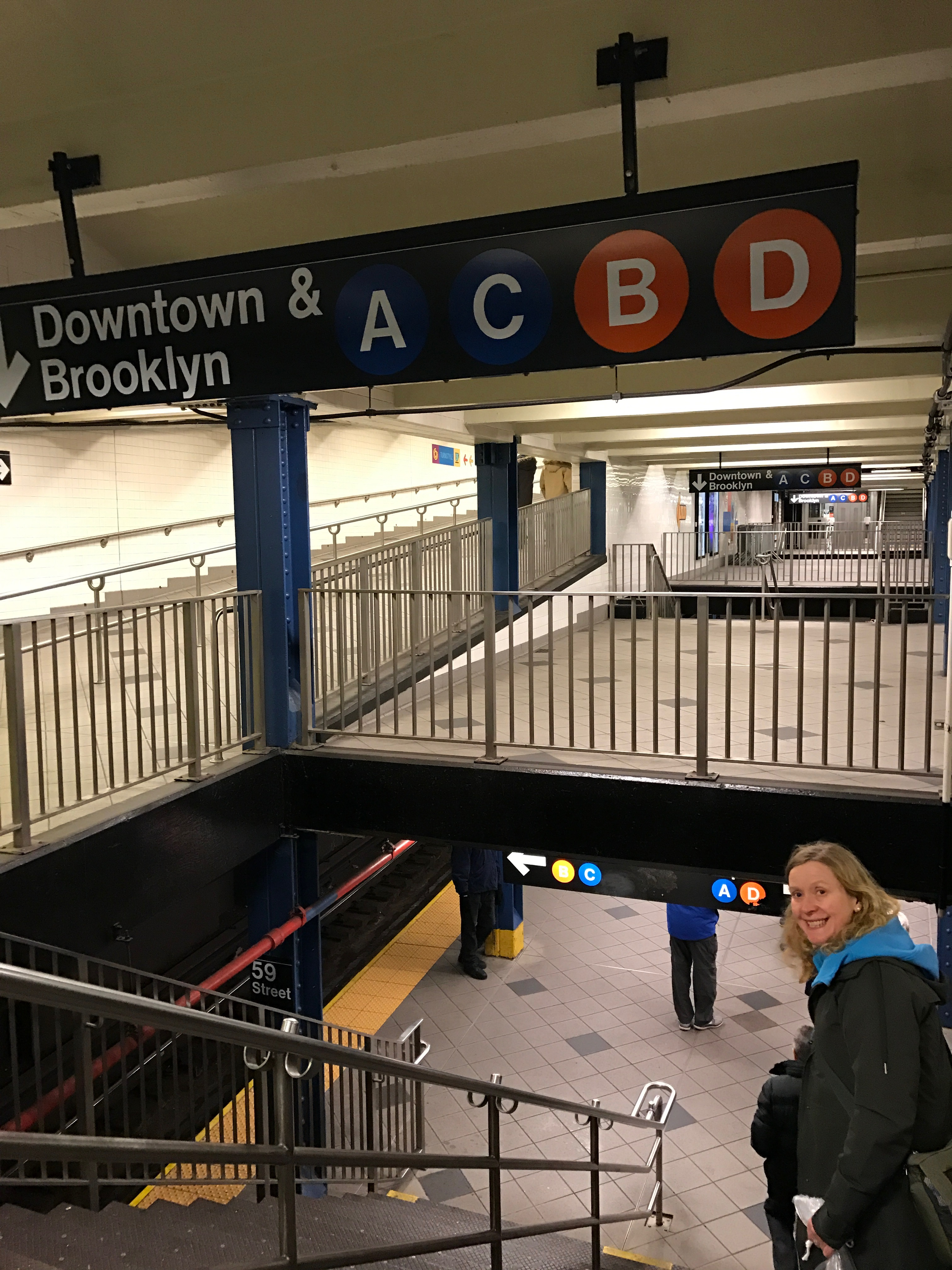 iPhone NYC photos